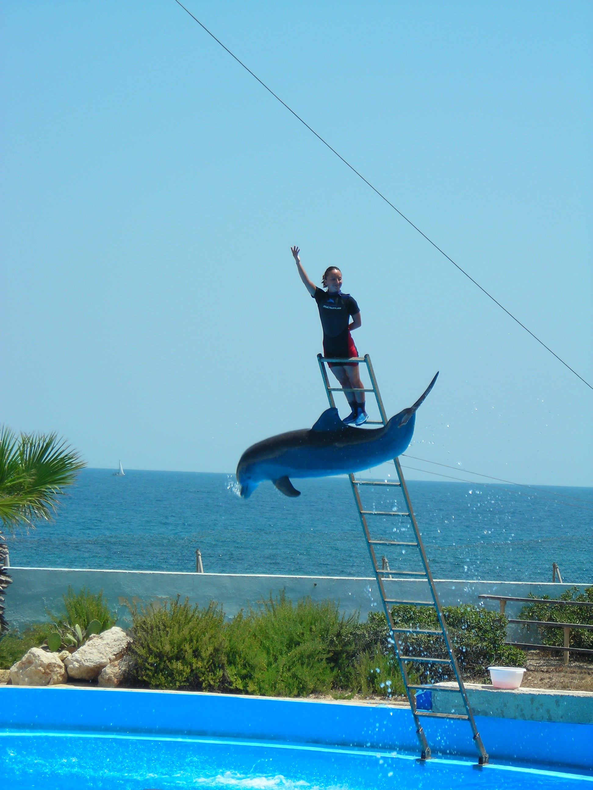 The dolphin show at Mediterraneo Marine Park, Malta